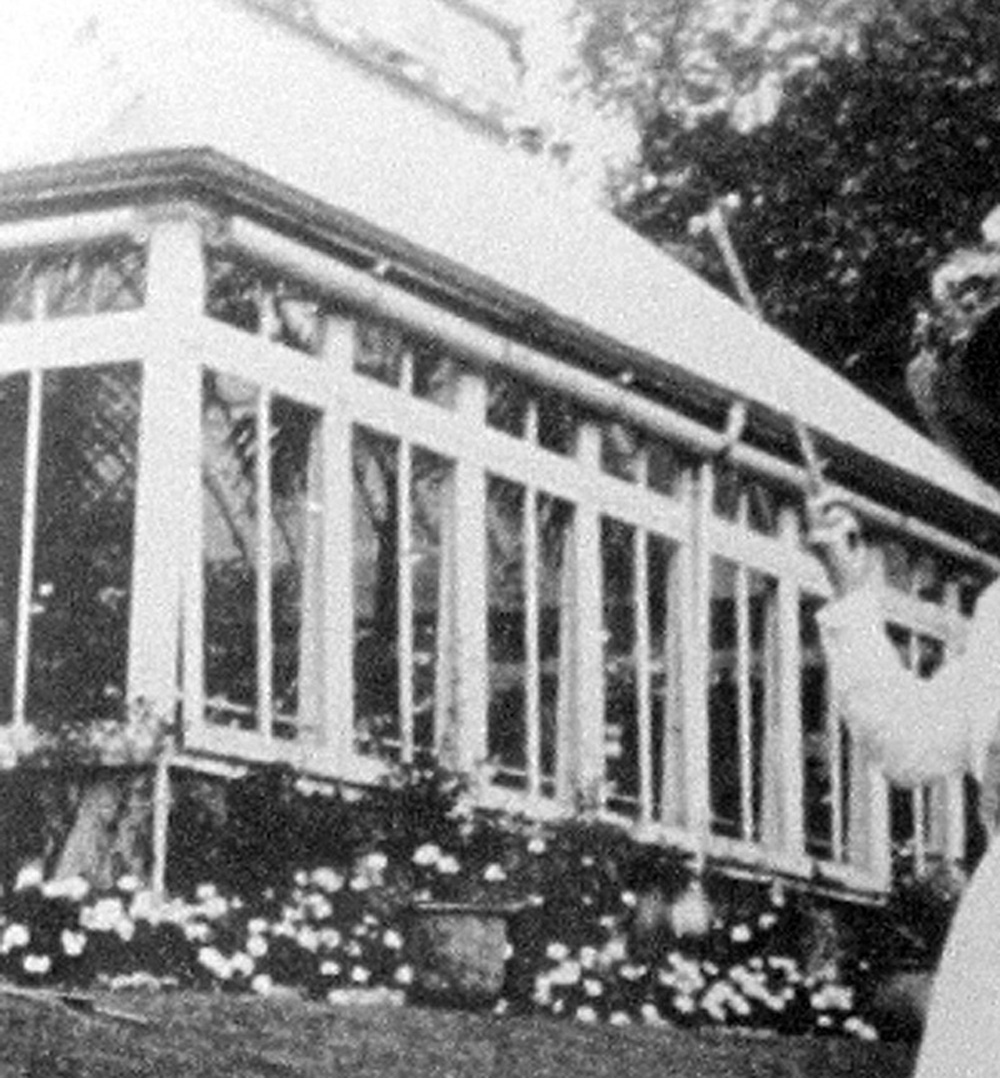 The Conservatory at Ashfield, Torquay circa 1910